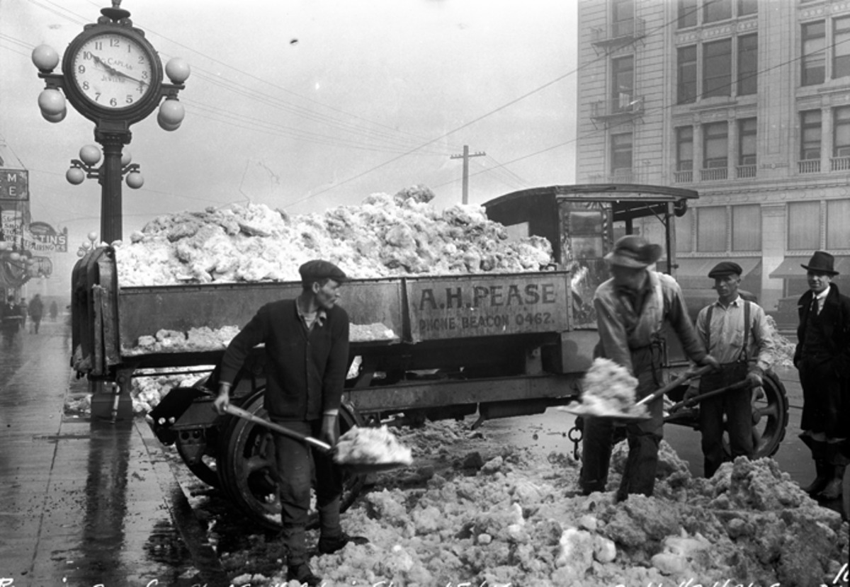 Shoveling snow, Seattle, Washington, 1923. This location would now be inside the Westlake Center shopping mall, but at that time it was part of Westlake Avenue. Caplan Jewlery was at 1619 Westlake in 1922; the clock was hit by a car in 1923, which made the newspapers. Item 38243, Department of Streets and Sewers Photographs (Record Series 2625-10), Seattle Municipal Archives.